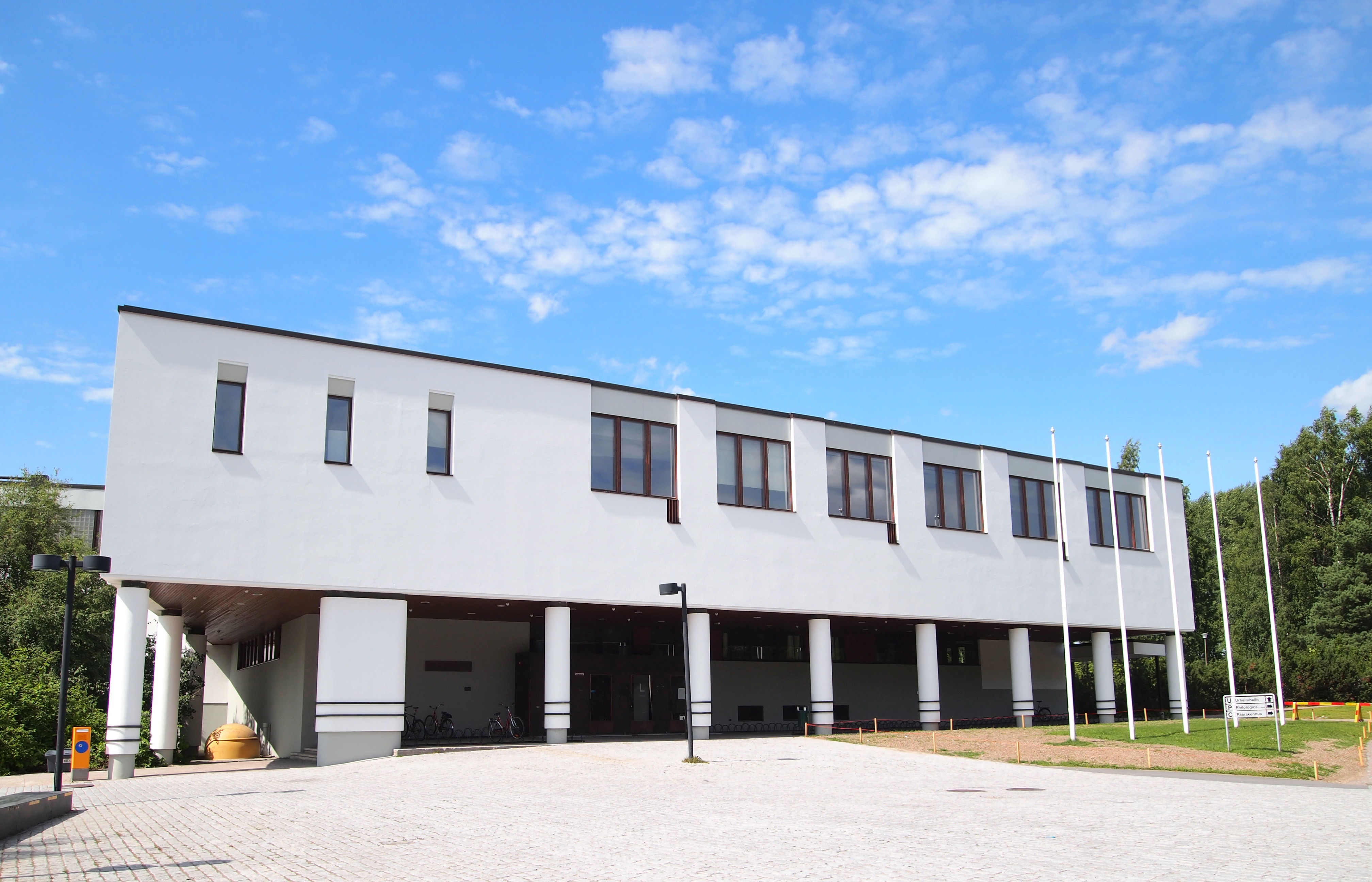 Sport sciencies building in Seminaarinmäeki campus, University of Jyväskylä.